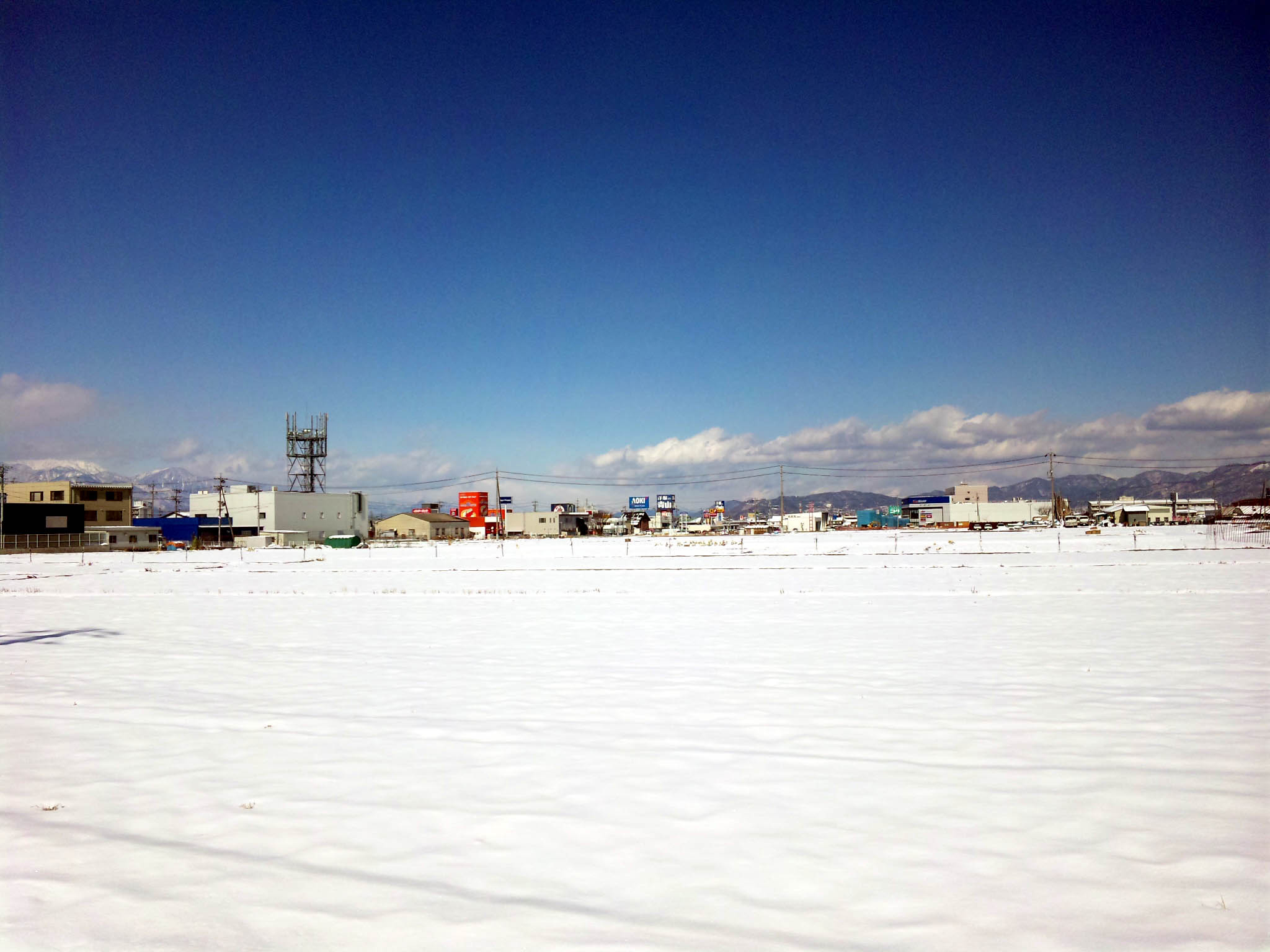 Matsumoto minami